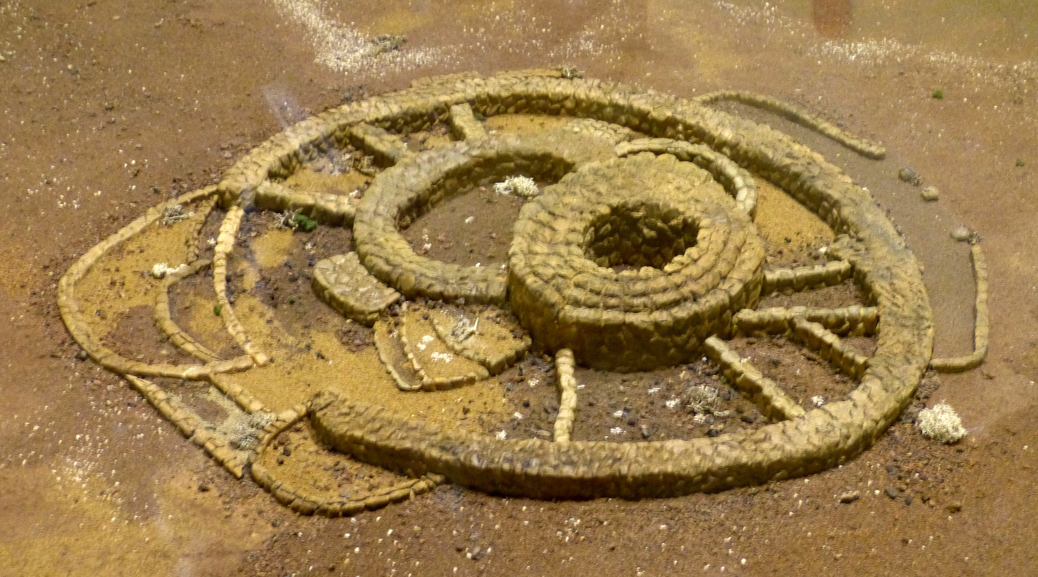 Santa Cruz de Tenerife ( Spain ). Museo de la Naturaleza y el Hombre - Guanche collections: Modell of the funerary tumulus of La Guancha ( Gáldar / Gran Canaria )